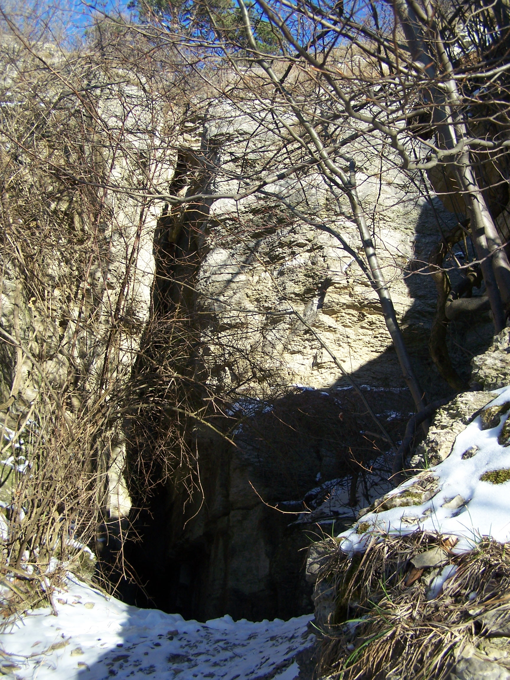 The natural cave Tannhäuserhöhle at the Hörselberg.